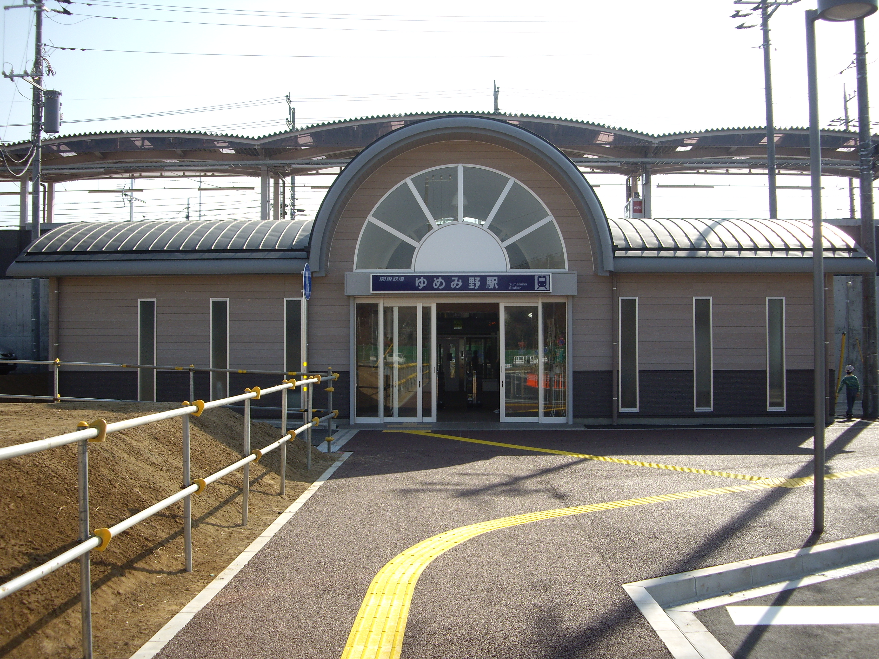 Yumemino Station on the Kanto Railway Joso Line in Toride, Ibaraki, Japan